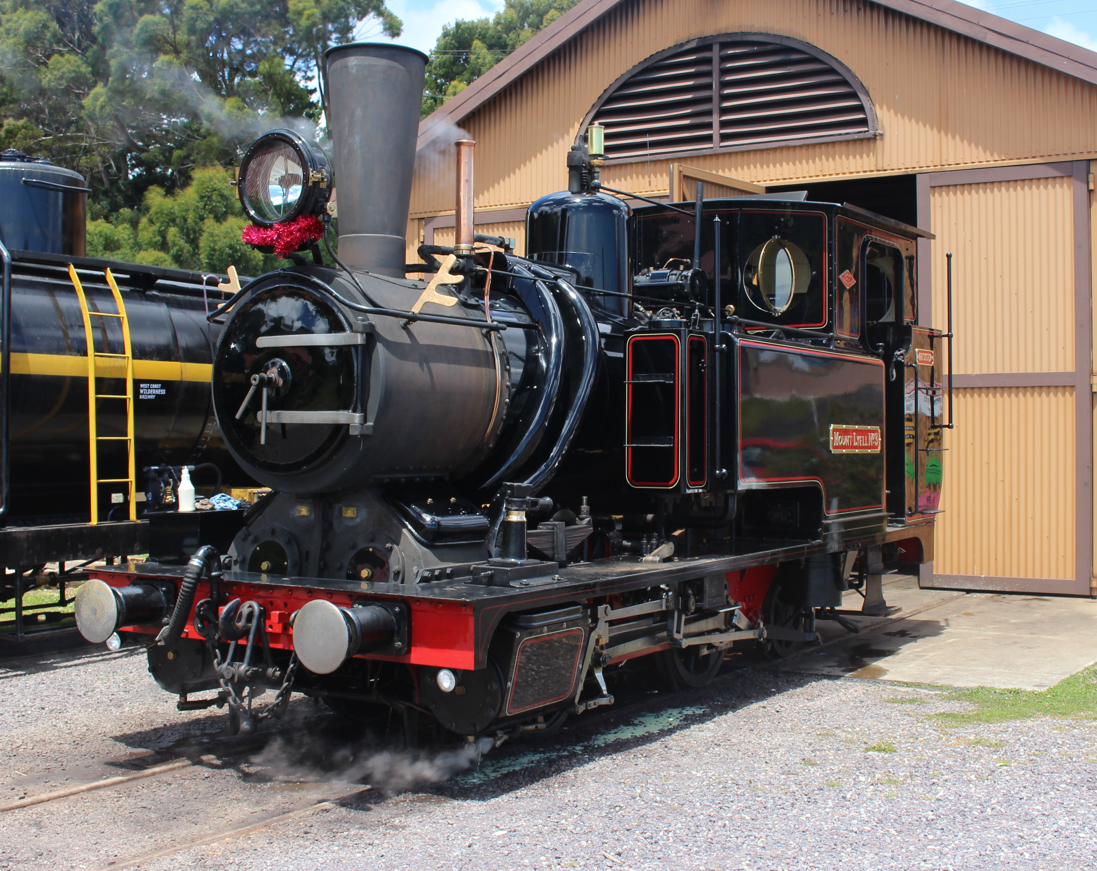 West Coast Wilderness Railway Mount Lyell No. 3 on Boxing day 2014